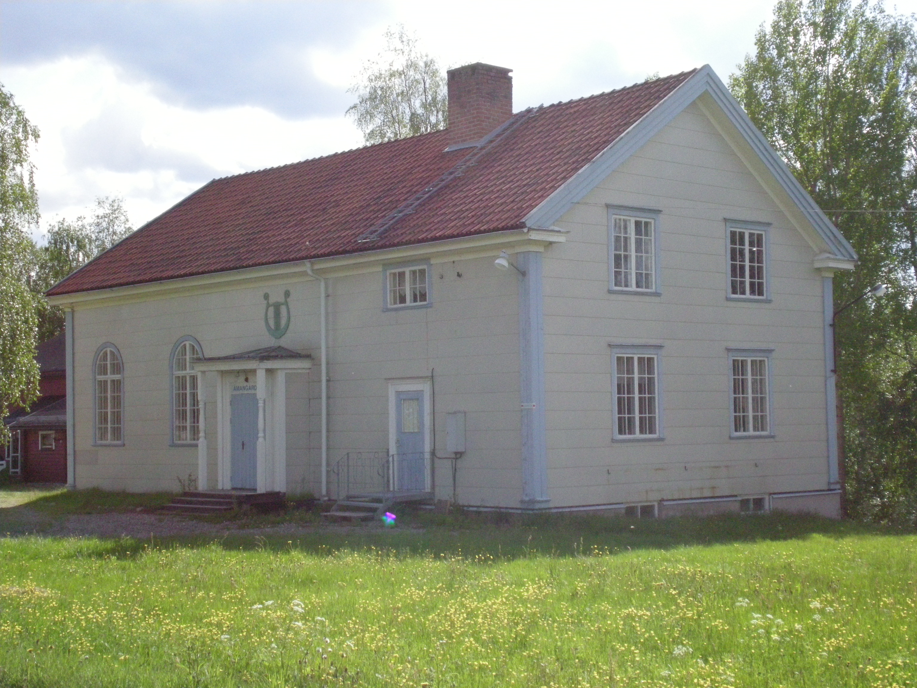 The missionary church in Åmsele.